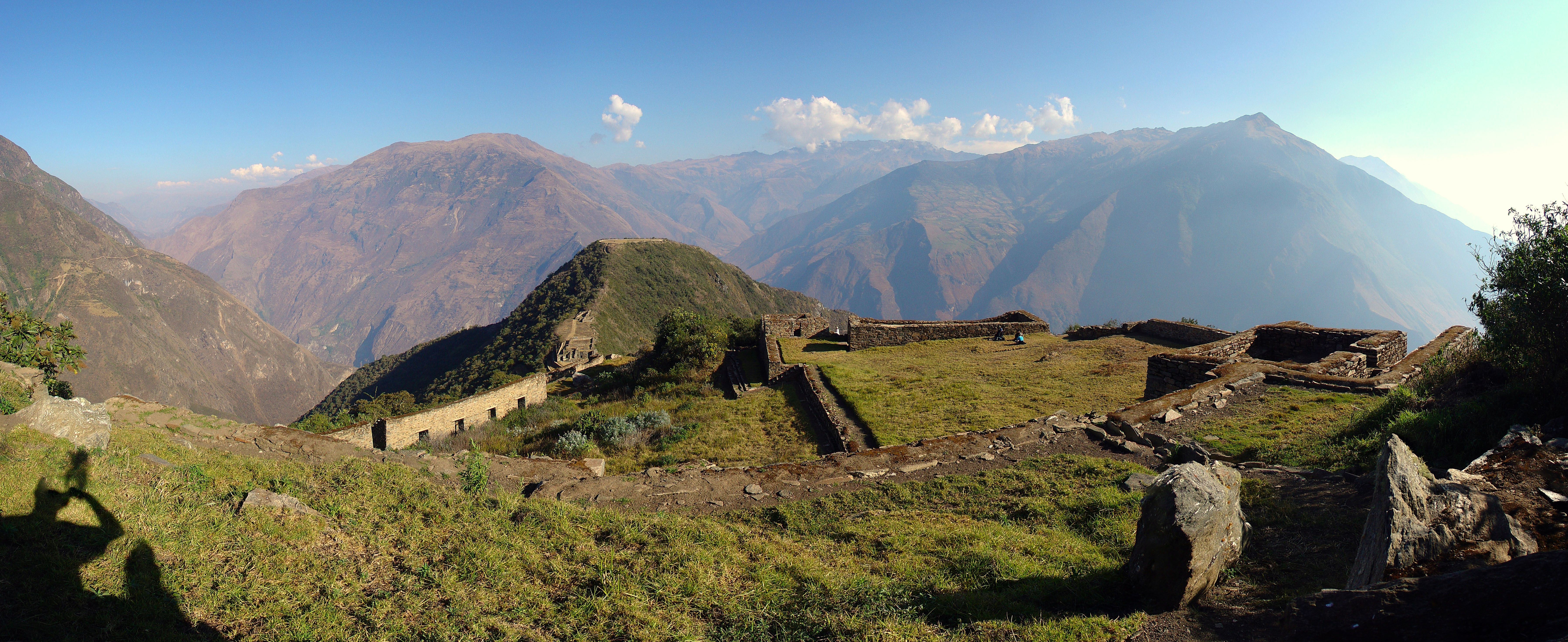 Ruins of Choquequirao in late afternoon